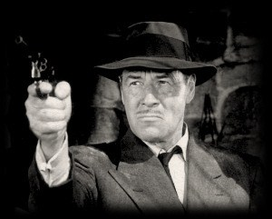 Jack Holt in Holt of the Secret Service - cropped screenshot